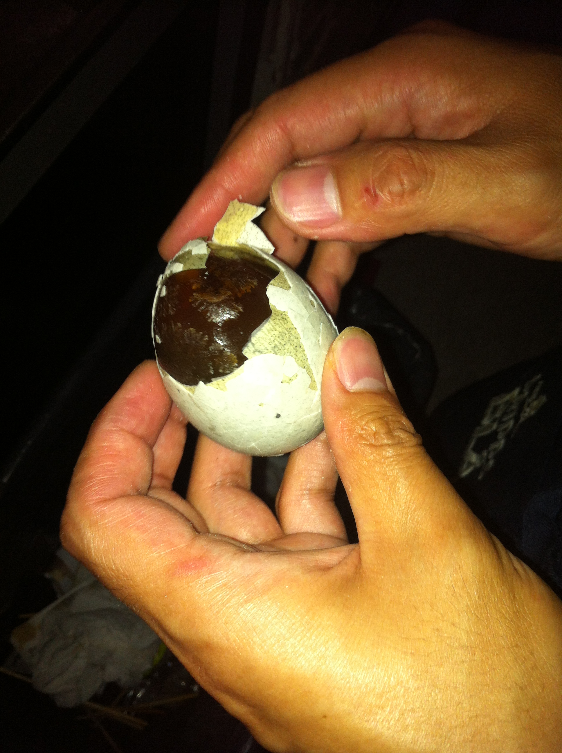 A man peeling a century egg